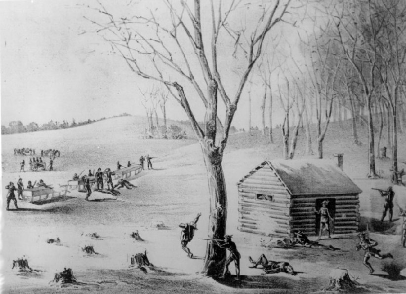 Illustration of the Battle of Duck Lake.